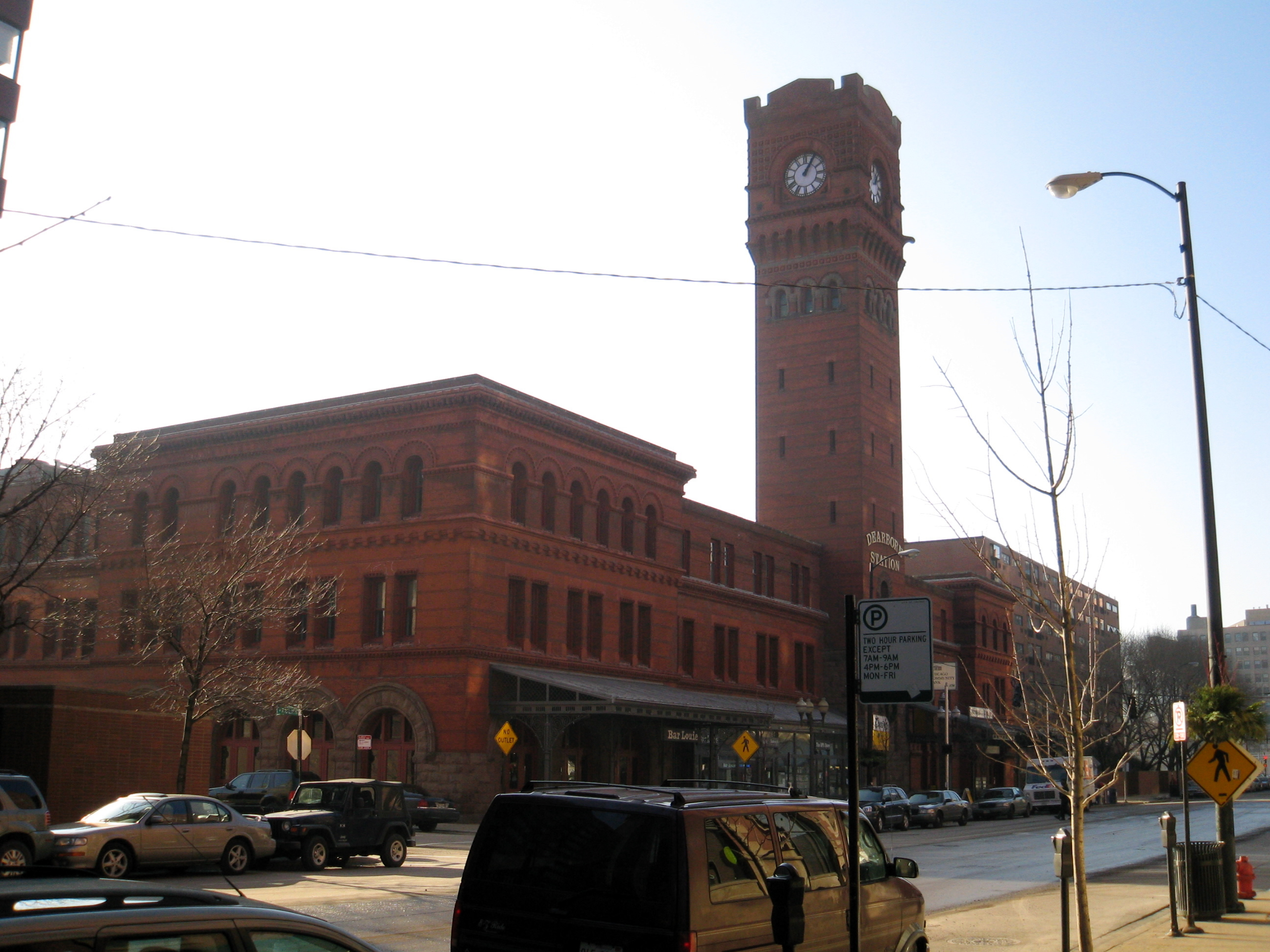 Dearborn Station was the oldest of the six intercity train stations serving downtown Chicago, Illinois during the heyday of rail in the twentieth century. Additionally, the station was used as a terminal for commuter traffic. Located at Dearborn and Polk Streets, it was also referred to as Polk Street Station. The station was owned by the Chicago and Western Indiana Railroad, which itself was owned by the companies operating over its line. The Romanesque Revival structure, designed by Cyrus L.W.Eidlitz, opened on May 8, 1885. The three-story building's exterior walls and twelve-story clock tower were comprised of pink granite and red pressed brick topped by a number of steeply-pitched roofs. Modifications to the structure following a fire in 1922 included eliminating the original pitched roof profile. Behind the head house were the train platforms, shielded by a large train shed. Inside the station were ticket counters, waiting rooms, and one of the legendary Fred Harvey Company restaurants. The station was closed on May 2, 1971 as the first step of Amtrak's consolidation of Chicago's remaining intercity train operations at Union Station. By 1976 Dearborn Station's trainshed was demolished and tracks were removed. However, the headhouse building escaped the fate of several other Chicago stations like the neighboring Grand Central Station. The train station stood abandoned into the mid 1980s when it was converted to retail and office space. The former rail yards provided the land that is now known as Dearborn Park. This Chicago urban community is one of the nation's most successful urban renewal projects and is comprised of several parks, an elementary school, high rise and mid rise apartment towers, townhomes and single family homes. Today Dearborn Station remains as a landmark that is reminiscent of the railroad era but is now the focal point for a dynamic residential neighborhood.